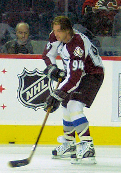 Ryan Smyth warming up before a game in Calgary, Alberta